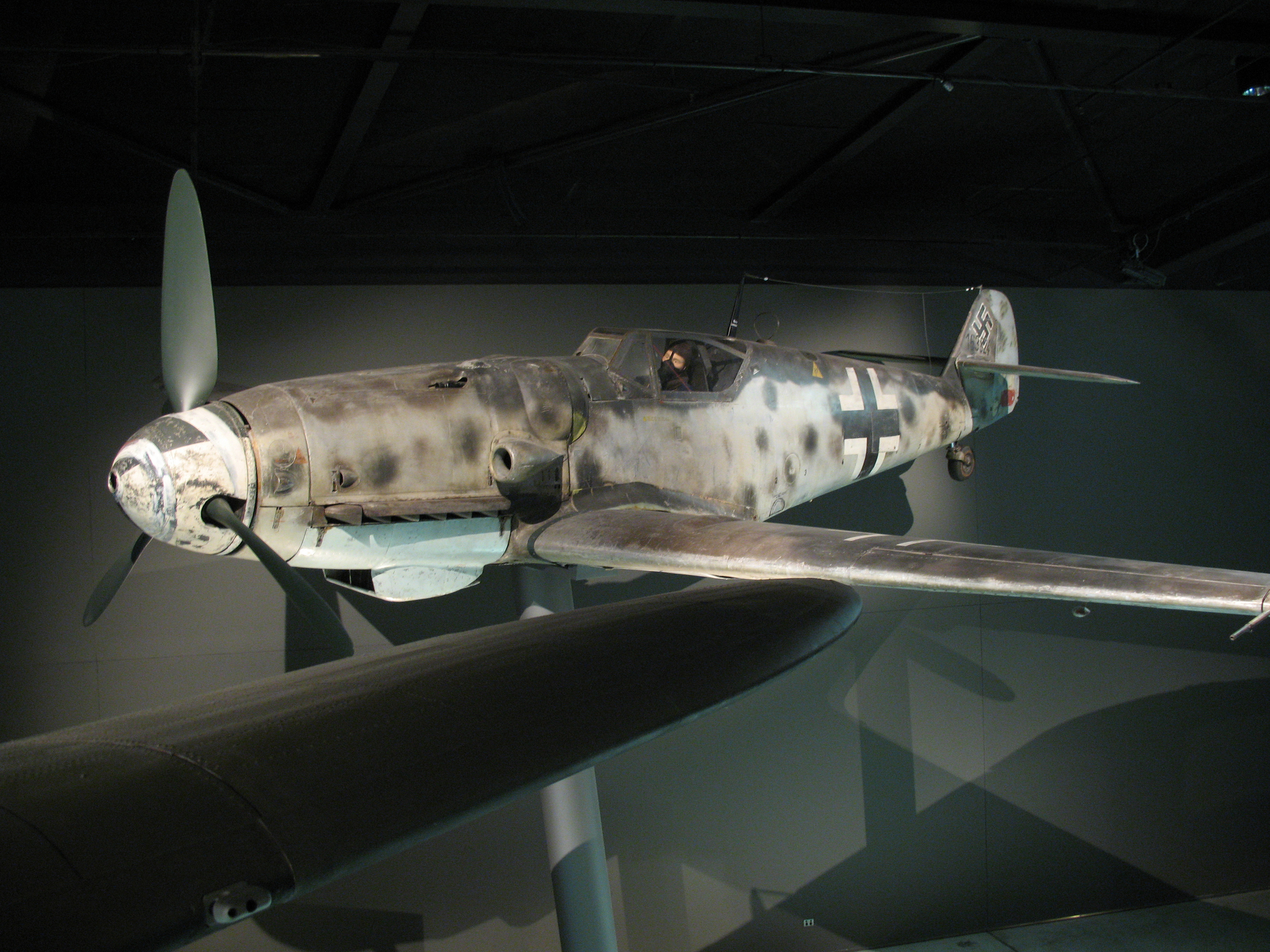 Messerschmitt Bf 109G-6/U4 Werknummer 163824 on display at Australian War Memorial, Canberra.